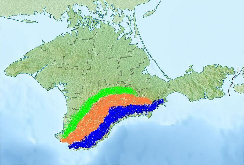 Approximate location of the three chains of the Crimean mountains on the physical map of Crimea. The Main Chain (the highest one) is shown by blue color. The Internal Chain is shown by orange color. The Outer Chain (the north one) is shown by green color.